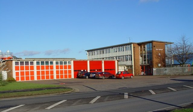 cropped version of File:Fire Station - .uk - 653050.jpg (7 Jan 2008) cropped to avoid photographers shadow in display